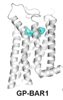 gpbar1